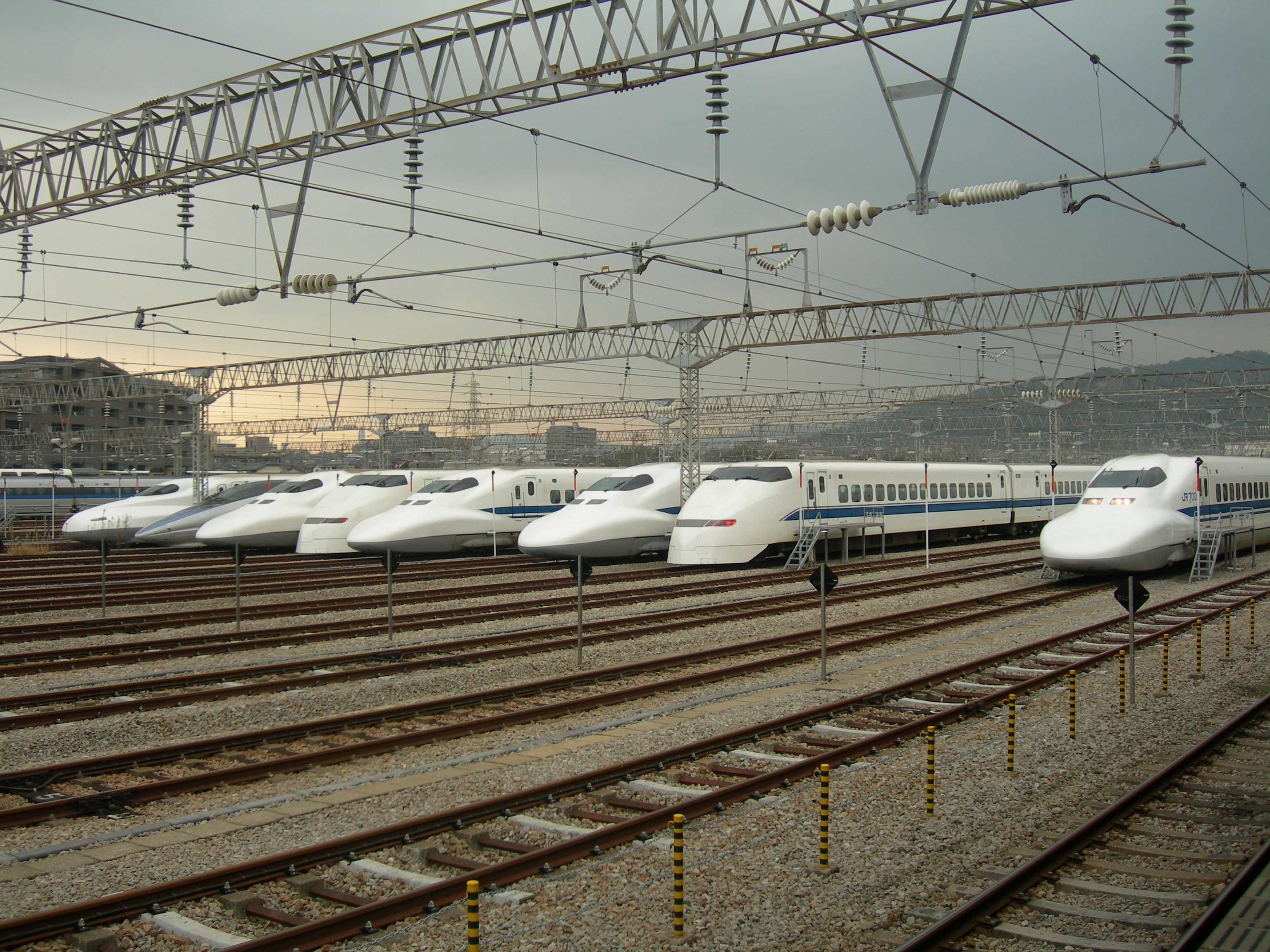 Hakata Car Maintenance Center seen from the platform of Hakata-Minami Station